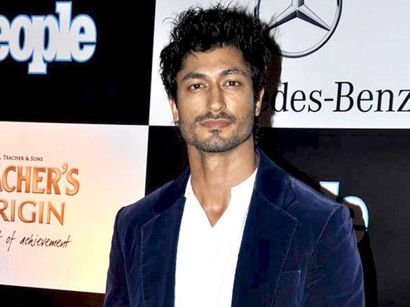 Vidyut jamwal